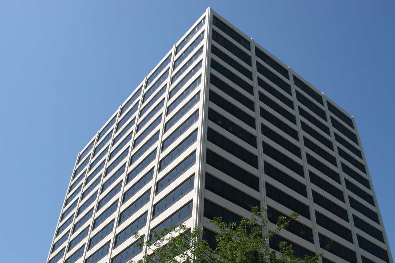 Rotary International Headquarters, 1560 Sherman Ave., Evanston, Ill. Photo by David Braverman.